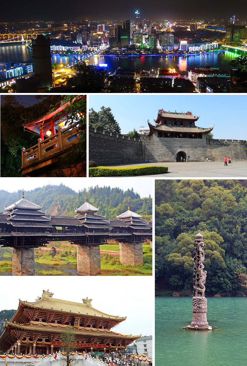 Montage of various landmarks of Liuzhou.